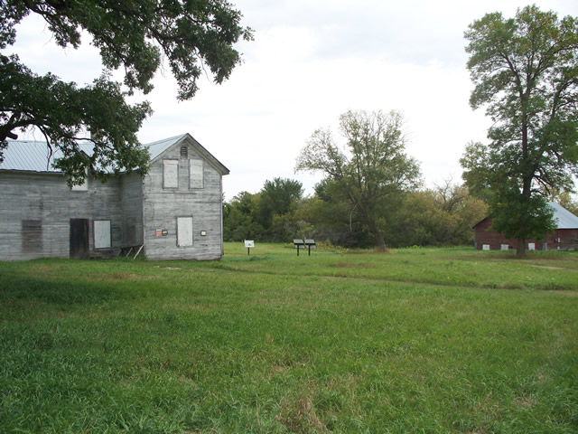 Remains of Fort Dufferin, Manitoba. National Historic Site of Canada.